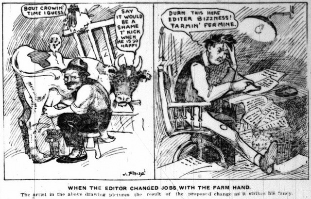 First cartoon published by Canadian cartoonist Jimmy Frise (Star Weekly 12 November 1910)